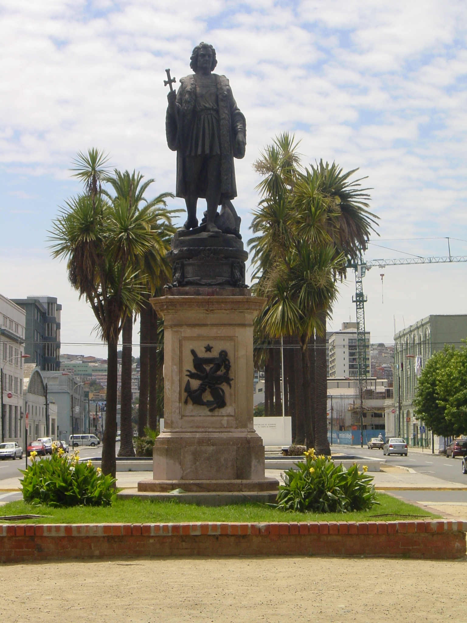 The statue of Columbus in Valparaiso